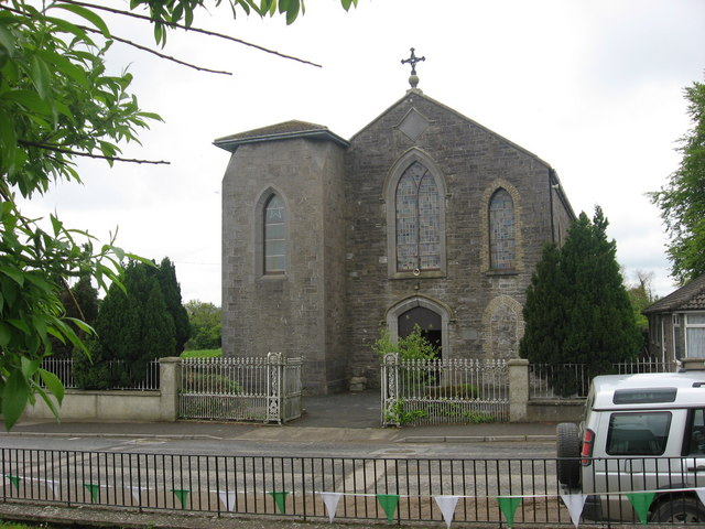 Church at Ballyboughal, Co. Dublin, near to Ballyboghil, Gracedieu, Drisnoge and Richardstown, Dublin, Ireland. The Church of the Assumption. The inscribed stone high up in the gable reads "THIS TEMPLE was erected to the honour and glory of GOD By the Revd George Canavan P.P. in the year of our Lord 1836".